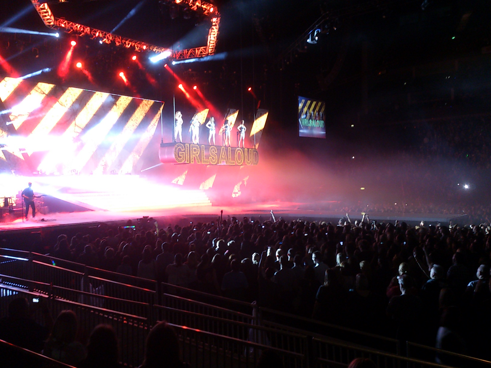 Girls Aloud performing "Sound of the Underground" in London, during their Ten: The Hits Tour